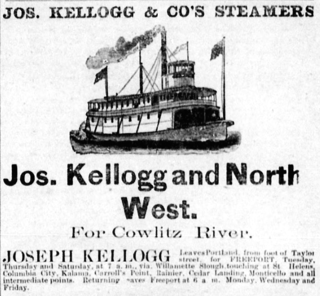 Advertisement for Kellogg Transportation Company, including steamers Joseph Kellogg and North West.